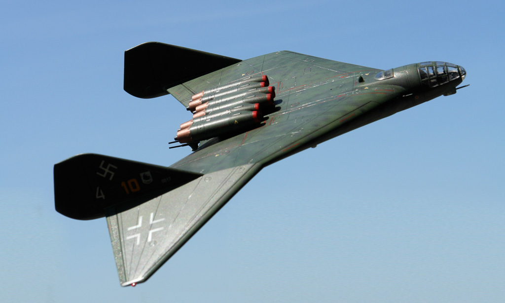 Model of an Arado AR E555, an airplane designed in Nazi Germany but it was never built.